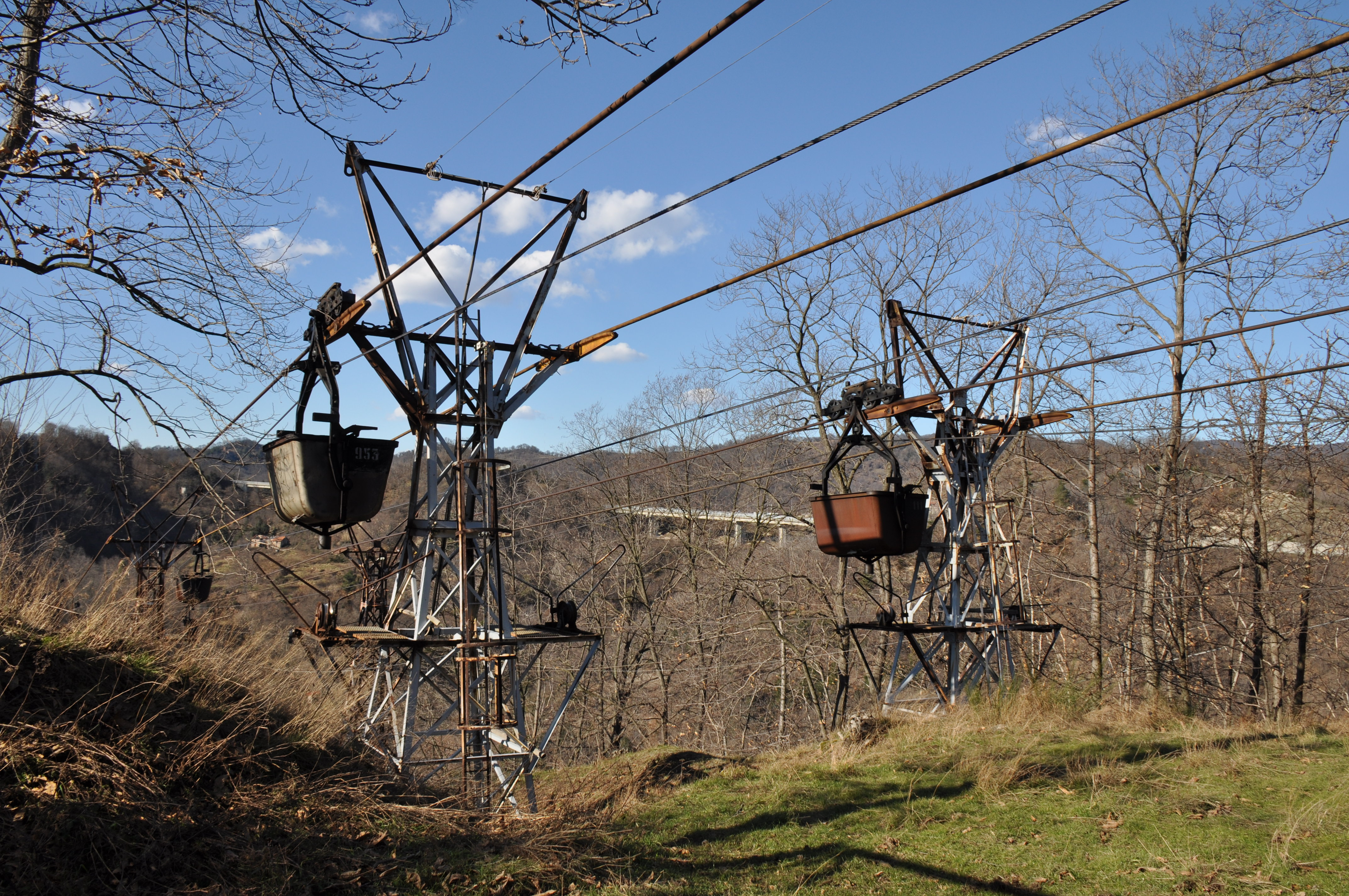 Ropeway Conveyer Savona-San Giuseppe